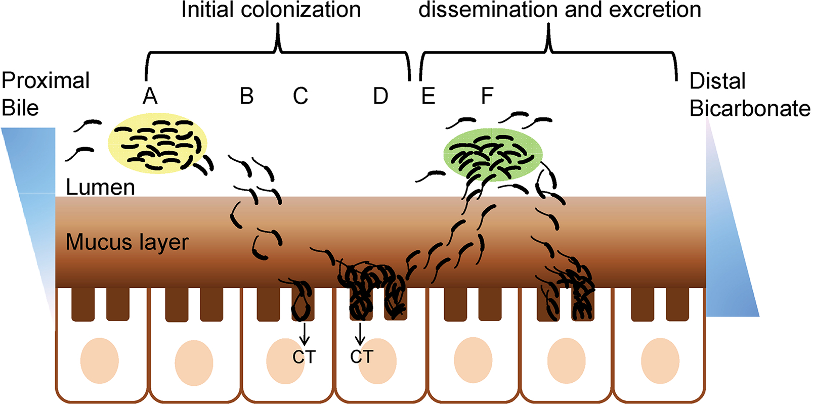 "Fig 3 Model for the role of biofilm in intestinal colonization. (A) Cholera Vibrios can enter the small intestine as planktonic cells or embedded in a biofilm matrix, represented by a pale yellow shade. A fraction of Vibrios detach from the biofilm into the lumen. (B) Bile in the lumen acts as a repellent. Vibrios interact with the protective mucus coat and penetrate the mucus layer. (C) Vibrios interact with the villi. Bacterial interaction with the villi could involve iterative weak attachments that result in a more permanent adherence facilitated by TCP and other adhesins. Low bile, high bicarbonate, and cessation of motility in the proximity of the villi favor the expression of TCP and CT. (D) Expression of TCP and unknown factors promote microcolony formation along the villous axis and the crypts. (E) At high cell density, activation of HA/protease and motility by quorum sensing and RpoS promotes detachment. (F) Detached Vibrios are shed back into the luminal compartment. High bile concentration in the lumen enhances the c-di-GMP pool and favors biofilm formation. A fraction of detached Vibrios respond to bile stress by forming biofilms in vivo, indicated by Vibrio aggregates embedded in a pale green shade. Repetition of steps A through E spreads the infection along the small intestine. A mixture of V. cholerae planktonic cells, biofilm-like aggregates, and degraded mucus is excreted in the cholera stool."